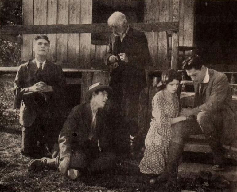 Still from the American drama film The Forbidden Valley (1920) with Warren Chandler, William R. Dunn, Charles Kent, May McAvoy, and Bruce Gordon, on page 73 of the October 16, 1920 Exhibitors Herald.